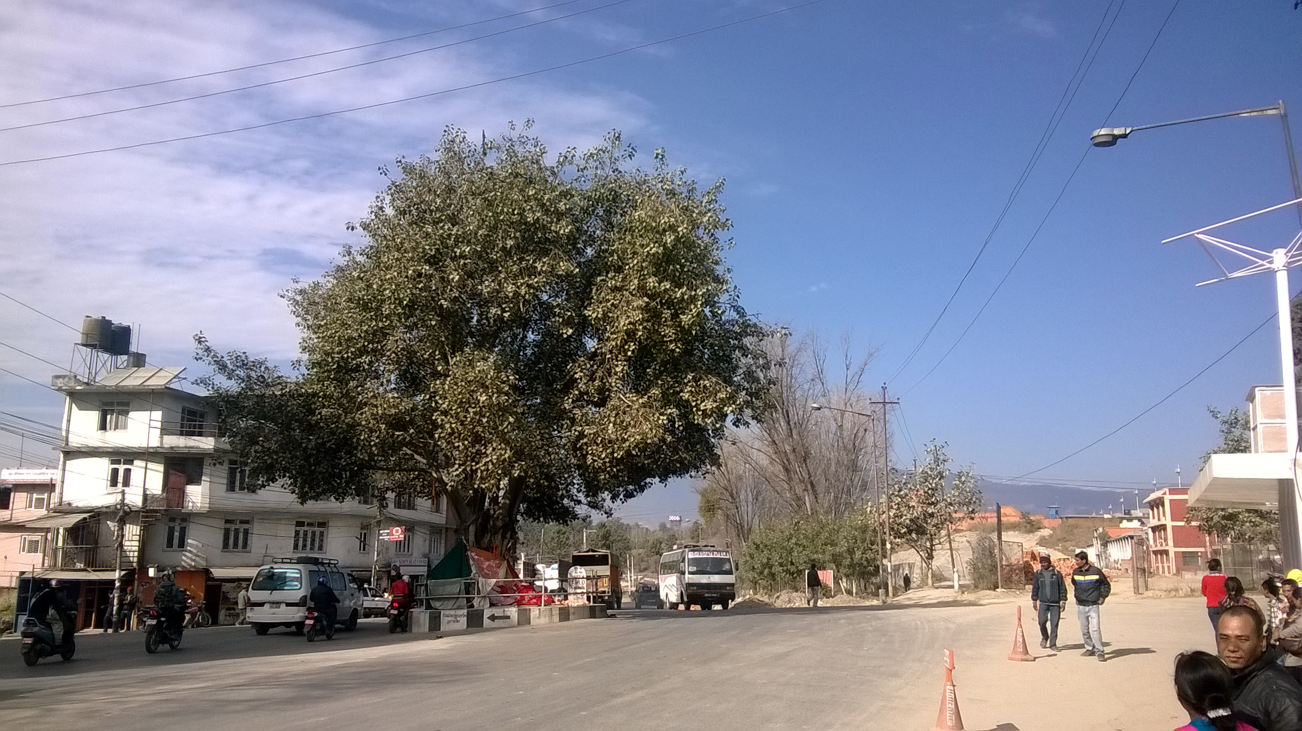 Sinamangal chowk in Kathmandu.